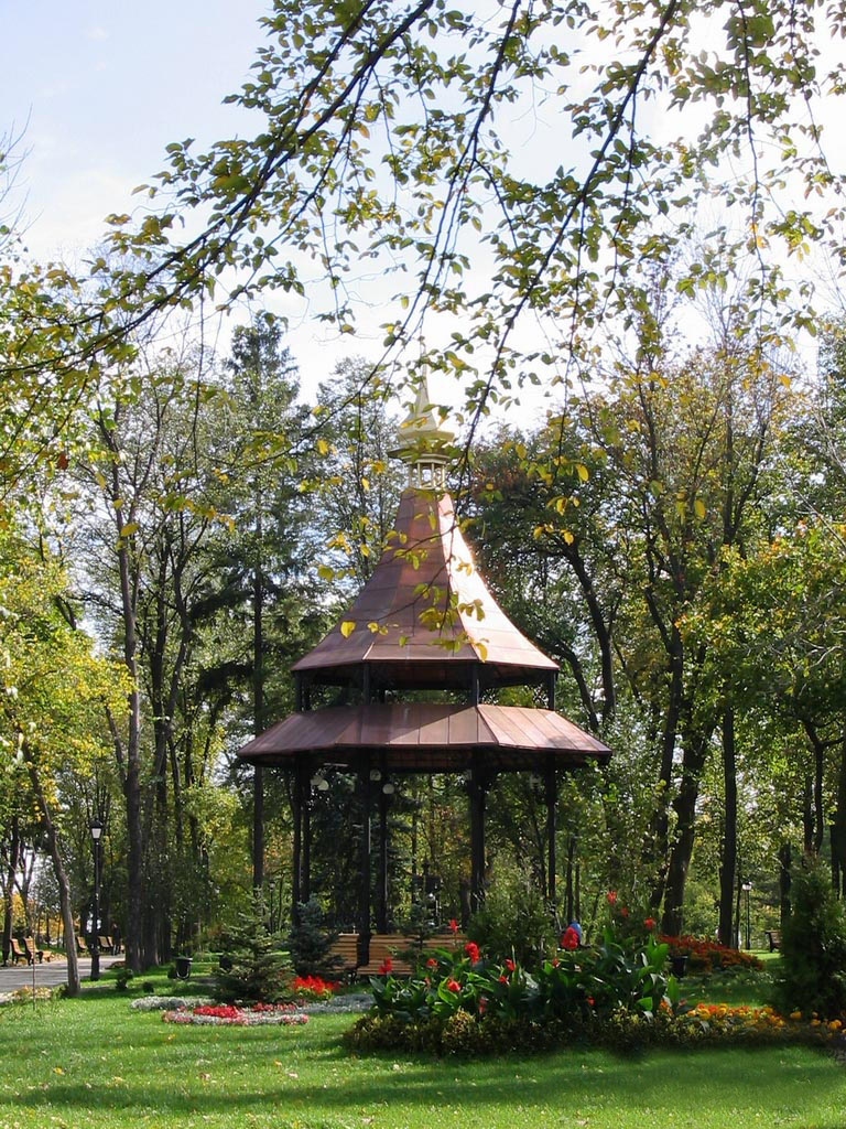 Miskyi Park in Kyiv